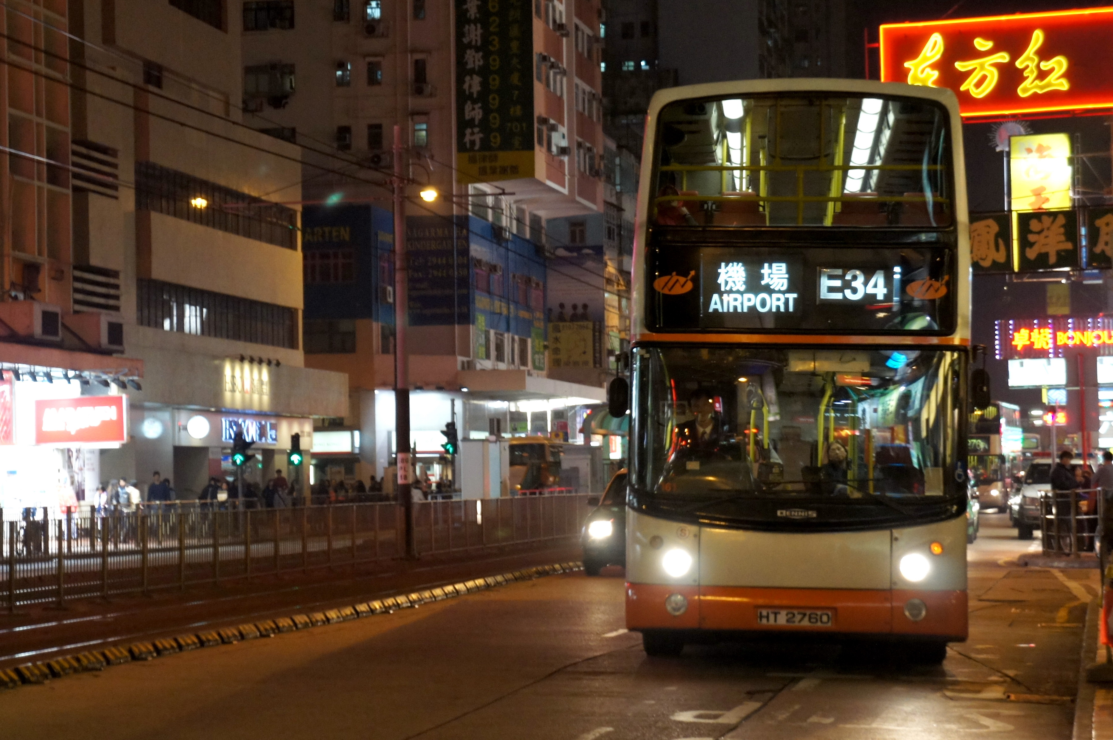 A Dennis Trident 3 bus (Long Win Bus Route E34) in front of Yuen Long Plaza.